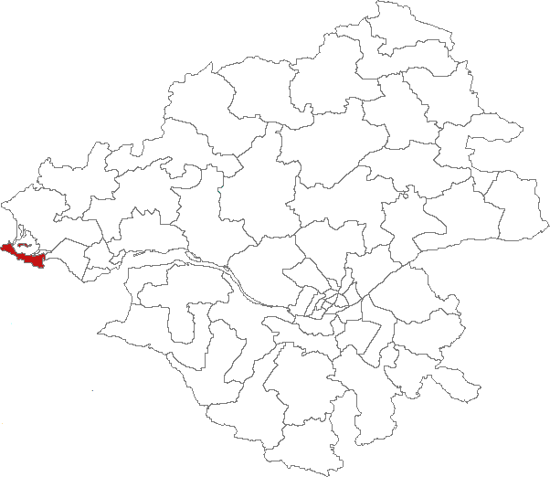 Map of canton of France : Canton du Croisic, Loire-Atlantique, France